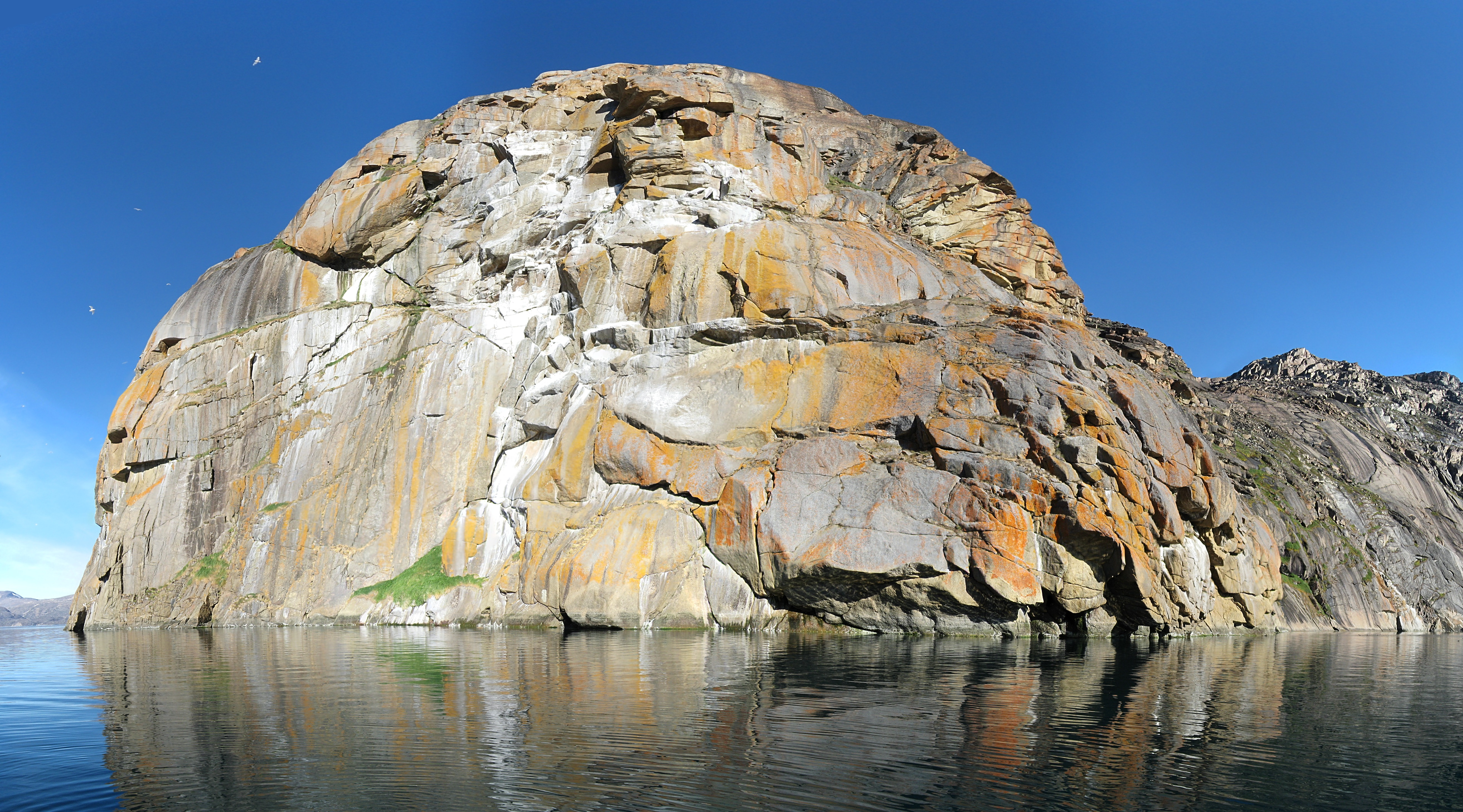 Panorama of the island Nunâ east of Upernavik and south of Aappilattoq in Greenland. Photographed south of the island during a sail trip to Upernavik Icefjord. The mountain, which extends 270 m above sea level, is inhabited with Glacous Gulls (Larus hyperboreus). The white areas are bird droppings. The yellow areas are lichen (probably Caloplaca and Xanthoria) adapted to the nutritious environment. The image has been generated using Hugin based on 17 individual photos arranged in three rows. The images were taken with a hand-held camera (Canon DIGITAL IXUS 800 IS) in a small boat that was slowly drifting (not optimal, but it was too deep to anchor). Vignetting has been minimized using a best fit polynomial in Hugin. The output image from Hugin has been rectangularly cropped in GIMP. The colour value curve has been modified slightly to compensate for over-exposure in certain white areas. Hereafter the photo has been Smart Sharpened with a pixel radius of 3.0 and an amount of 30%. the inverted edge detected mask was used in RGB to apply a selective gaussian blur with pixel radius 5.0 of the sky in an attempt to remove noise there. "Missing sky" in the upper left corner has been pasted in by simple colour picking and painting (do not know other methods).